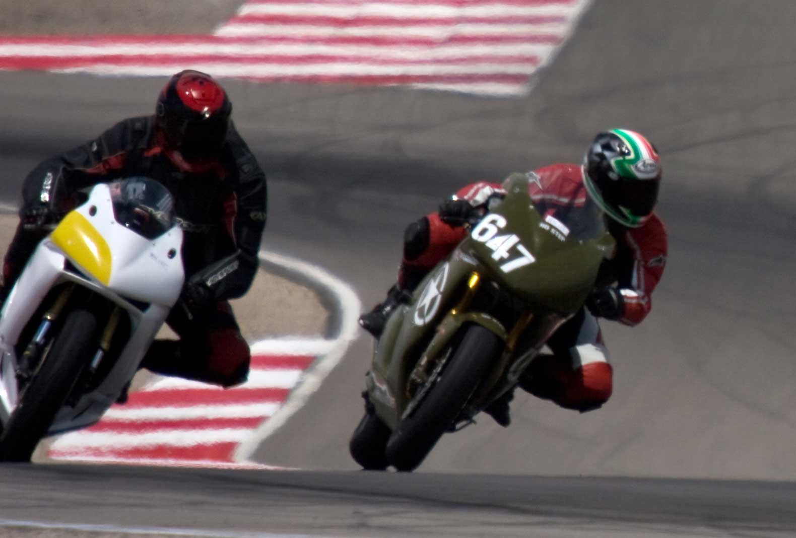 Two motorcycle trailing off the brakes through Tooele Turn at Miller Motorsports Park. Rider on the white bike is Warren Rose, Rider of the green bike is Dave Palazzolo